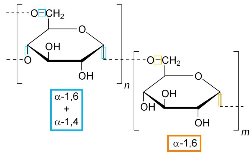 Alpha-glucan dextran.